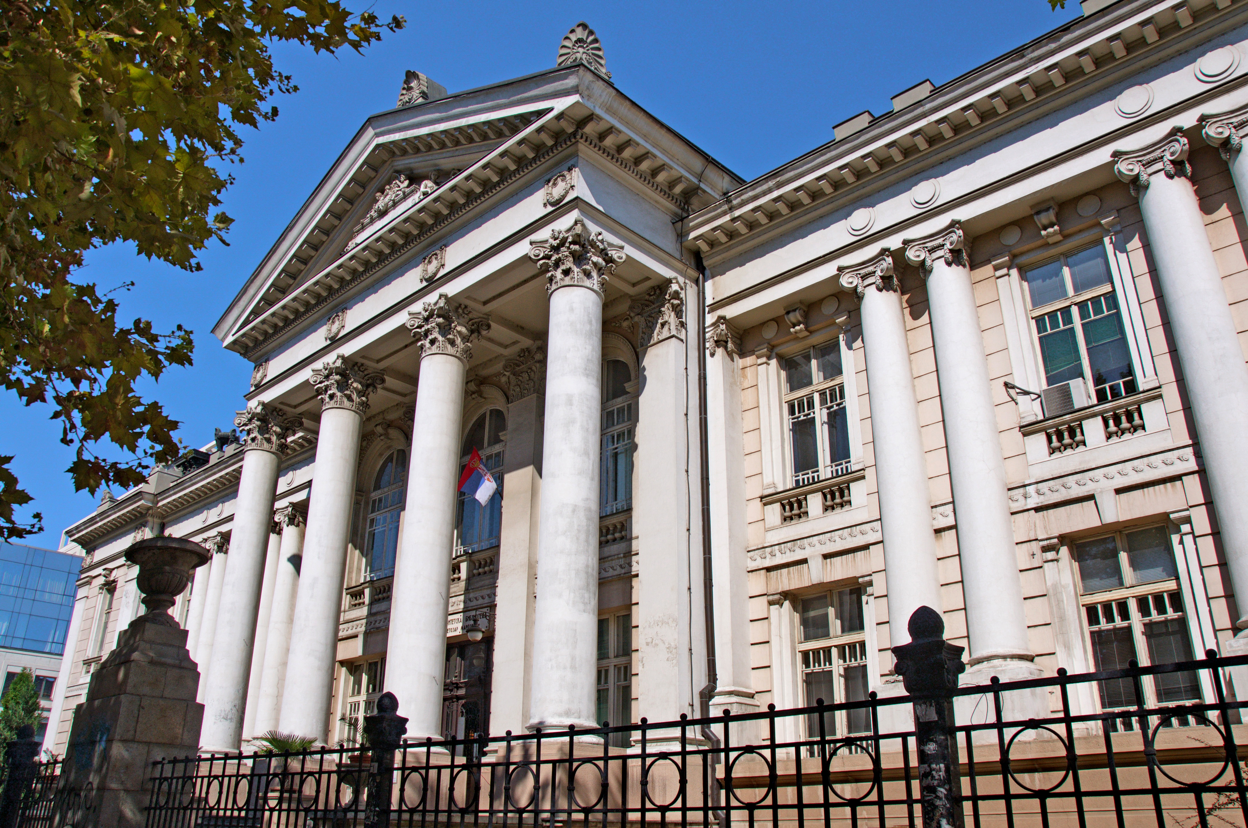 Univerzitetska biblioteka„Svetozar Marković“ je naučna biblioteka Univerziteta u Beogradu i nalazi se u zgradi u Bulevaru kralja Aleksandra 71.Na inicijativu našeg poslanika u Vašingtonu, dr Slavka Grujića, Karnegijeva zadužbina, koja je do tada već izgradila čitav niz biblioteka u svetu, prihvatila je da odobri 100.000 dolara kao poklon srpskoj vladi za gradnju i opremanje jedne biblioteke u Beogradu. Profesor dr Slobodan Jovanović, tadašnji rektor Univerziteta, uspeo je ličnim zalaganjem da ta materijalna sredstva uveća državnim kreditima, kako bi se izgradila jedna veća biblioteka, koja bi zadovoljila potrebe Univerziteta. Grad Beograd je poklonio zemljište, a projekat su uradili profesori univerziteta, arhitekti Dragutin Đorđevići Nikola Nestorović. Tako je podignuta prva i tada jedina zgrada u Srbiji, namenski sagrađena za biblioteku.